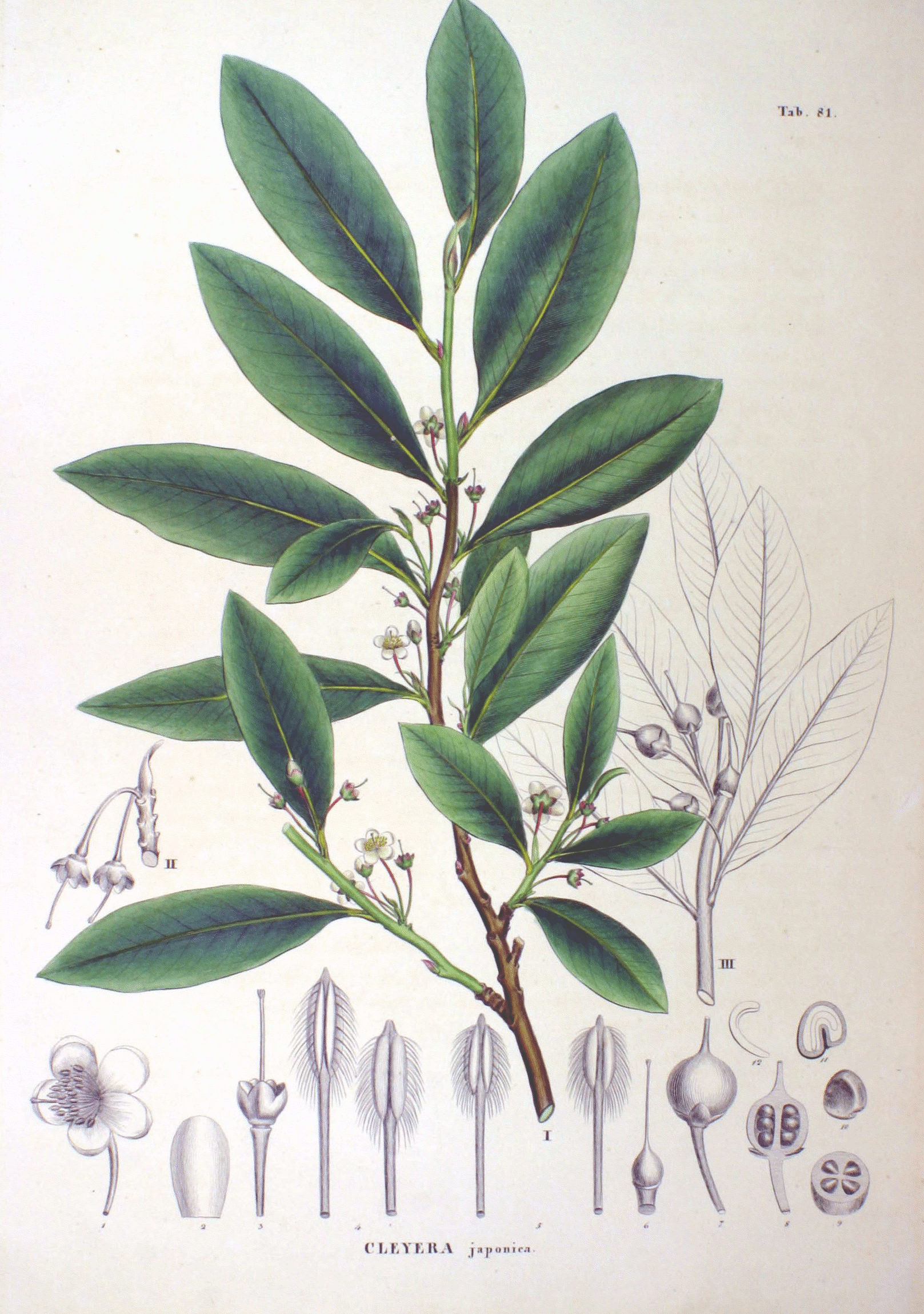 Plate from book